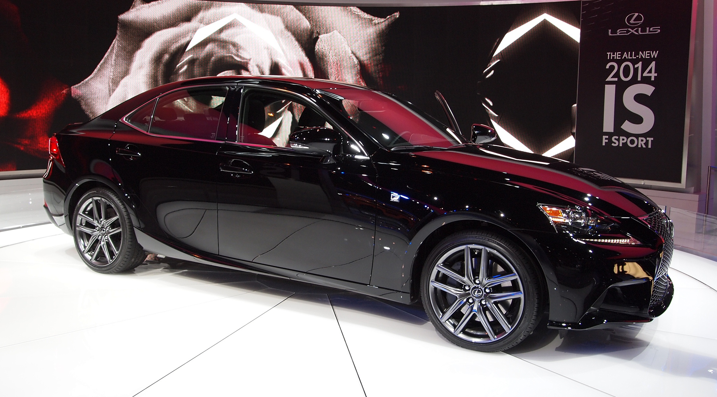 2014 Lexus IS 350 F-Sport, exhibited at the 2013 Chicago Auto Show. Chicago, Illinois, USA.